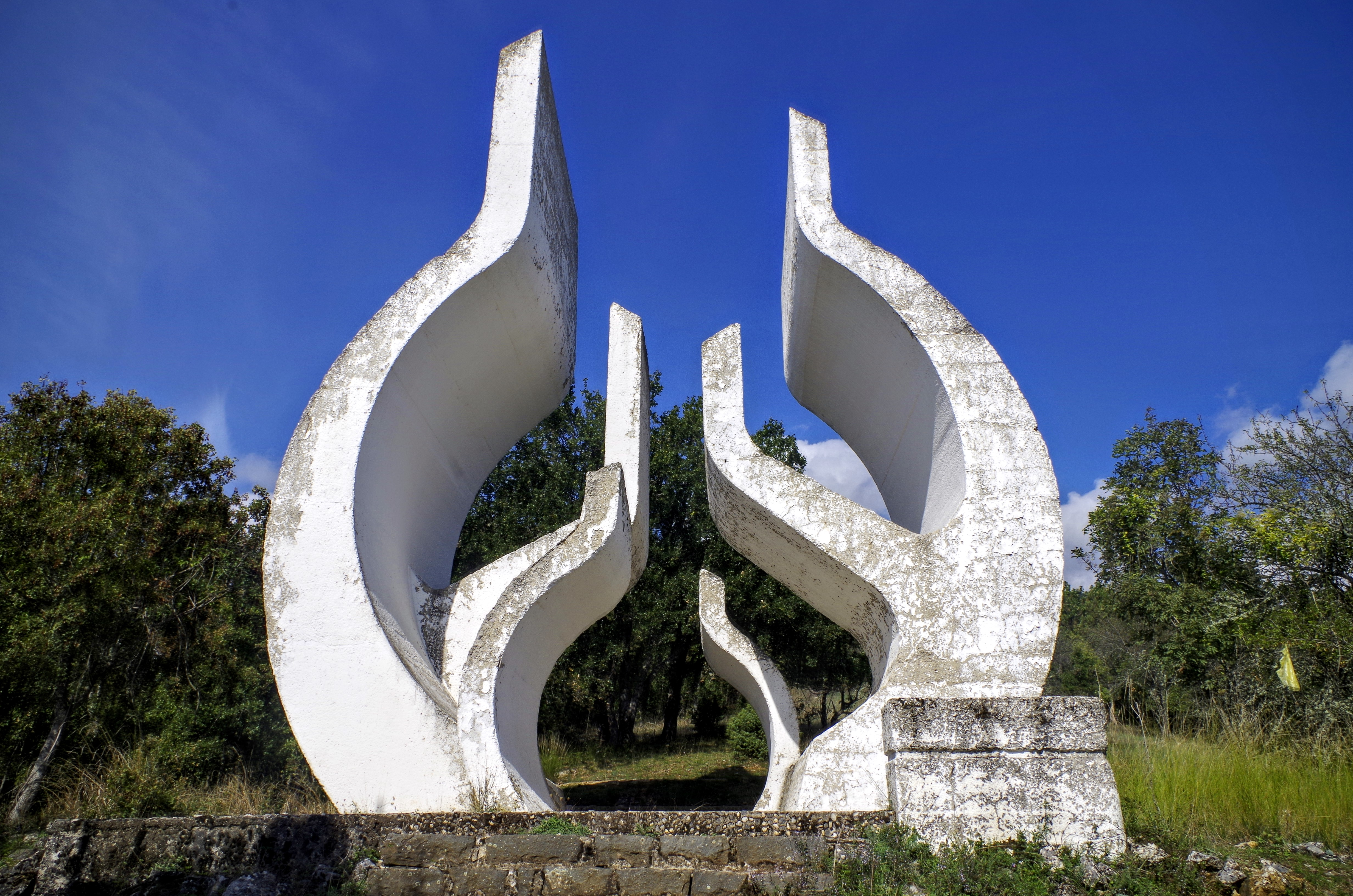 View of the Memorial of the Prespa Meeting, near village Oteševo